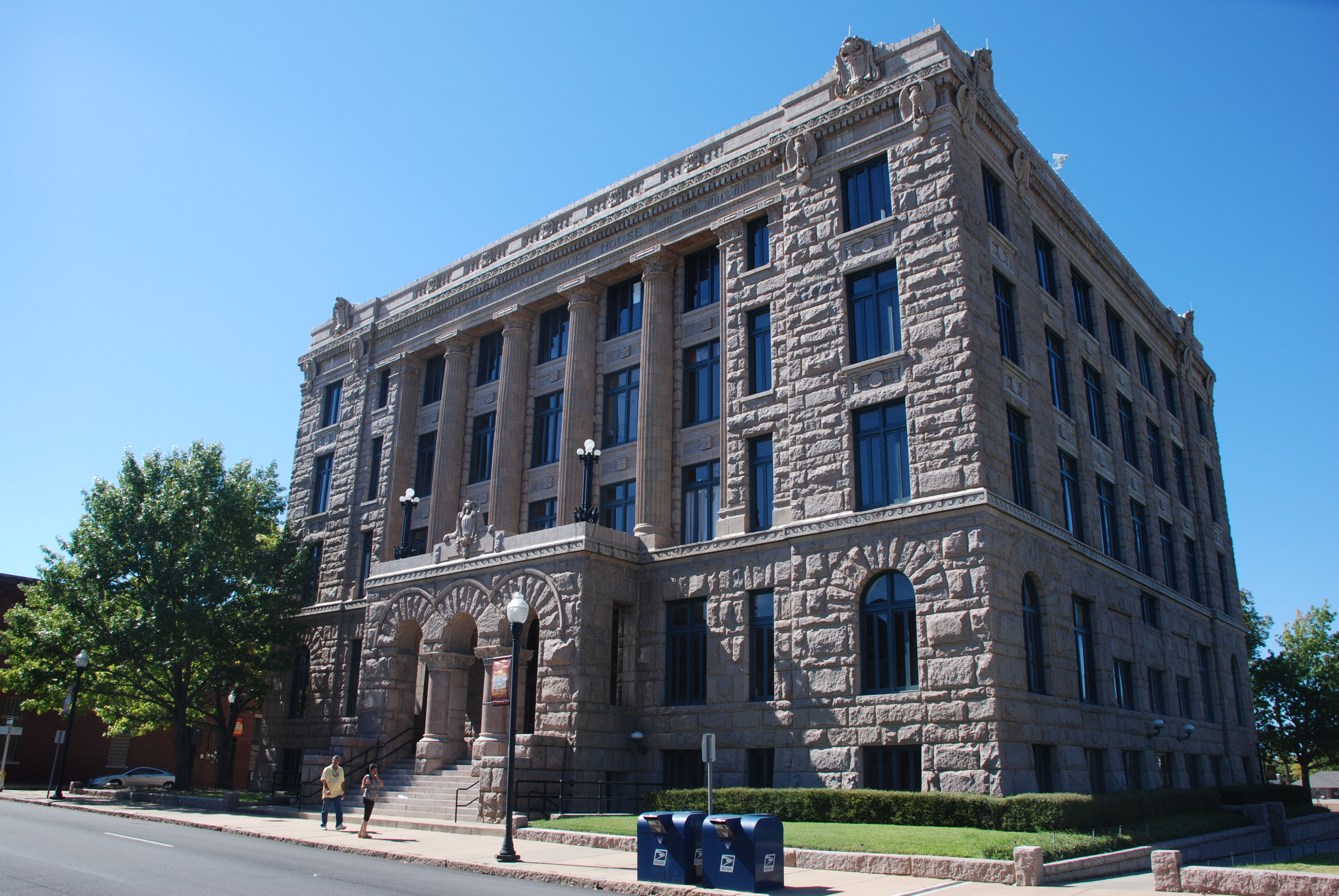 Lamar County Courthouse, Paris (Texas, USA)